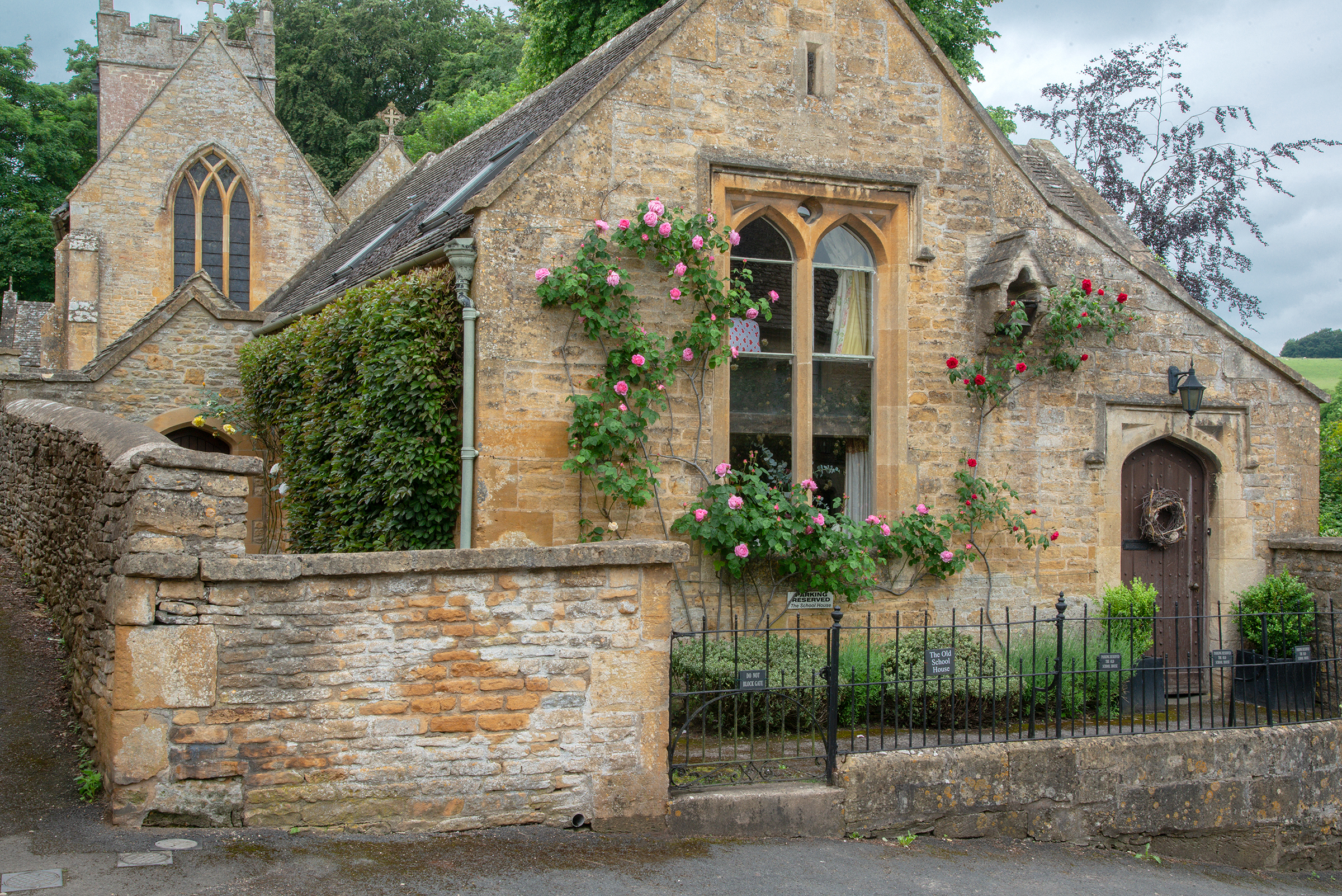 The Schoolhouse in Upper Slaughter, a Grade II listed property